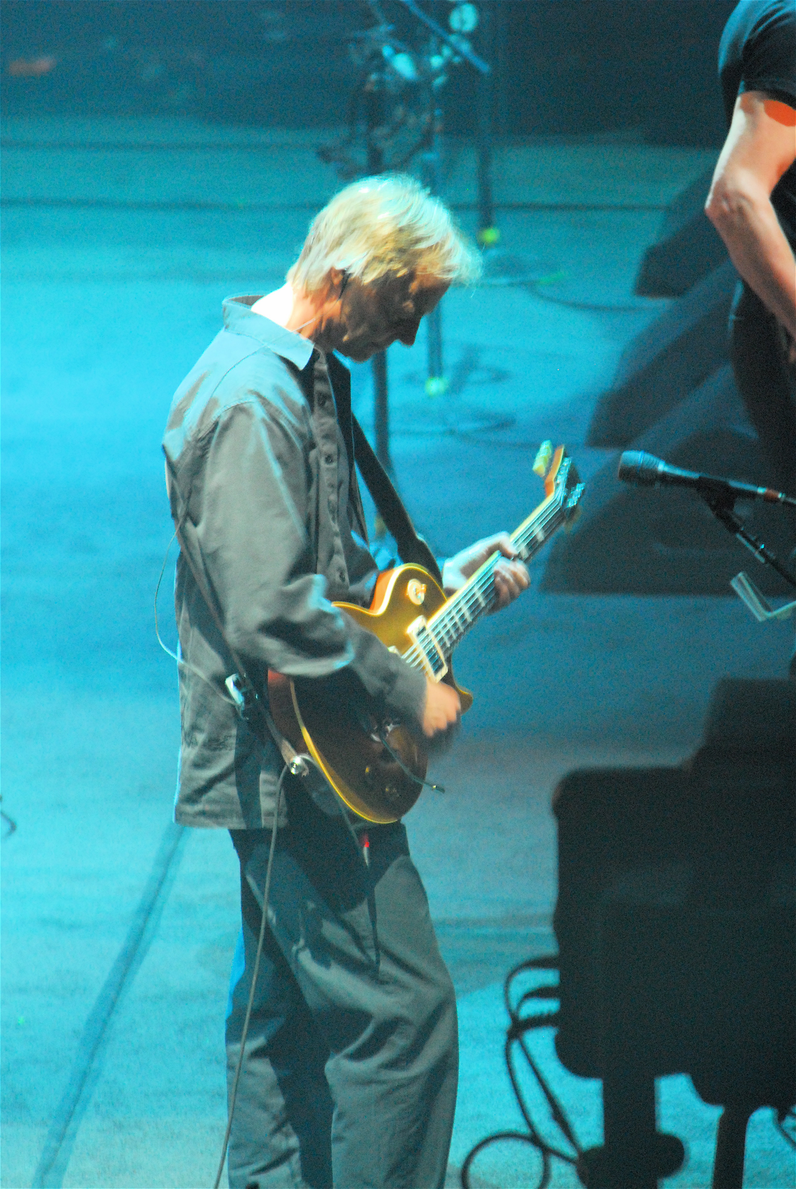 British guitarist Snowy White in Ottawa